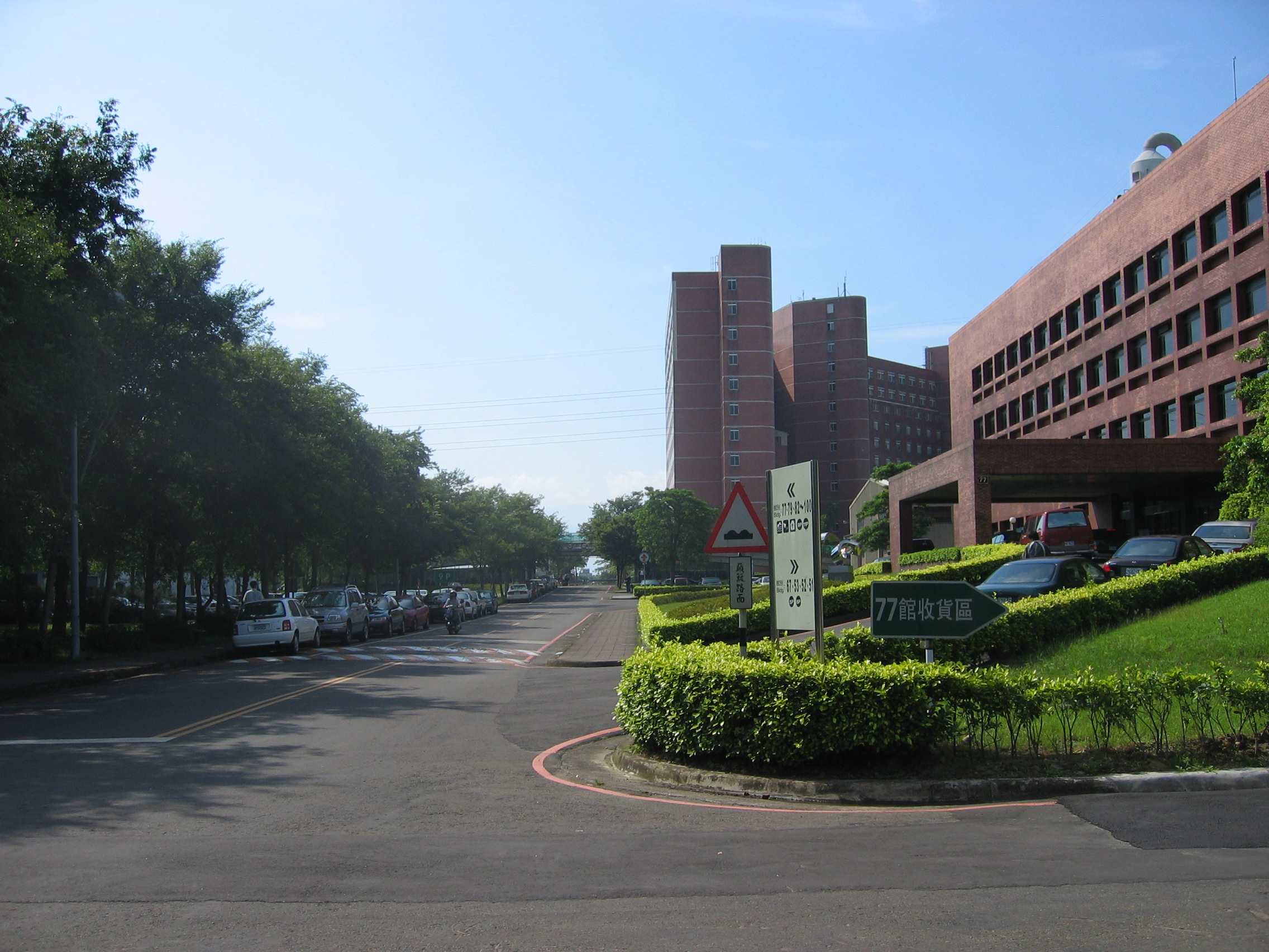 Photo taken on 2005.06.30 by User:Jiang in Hsinchu County, Taiwan Province, Republic of China.